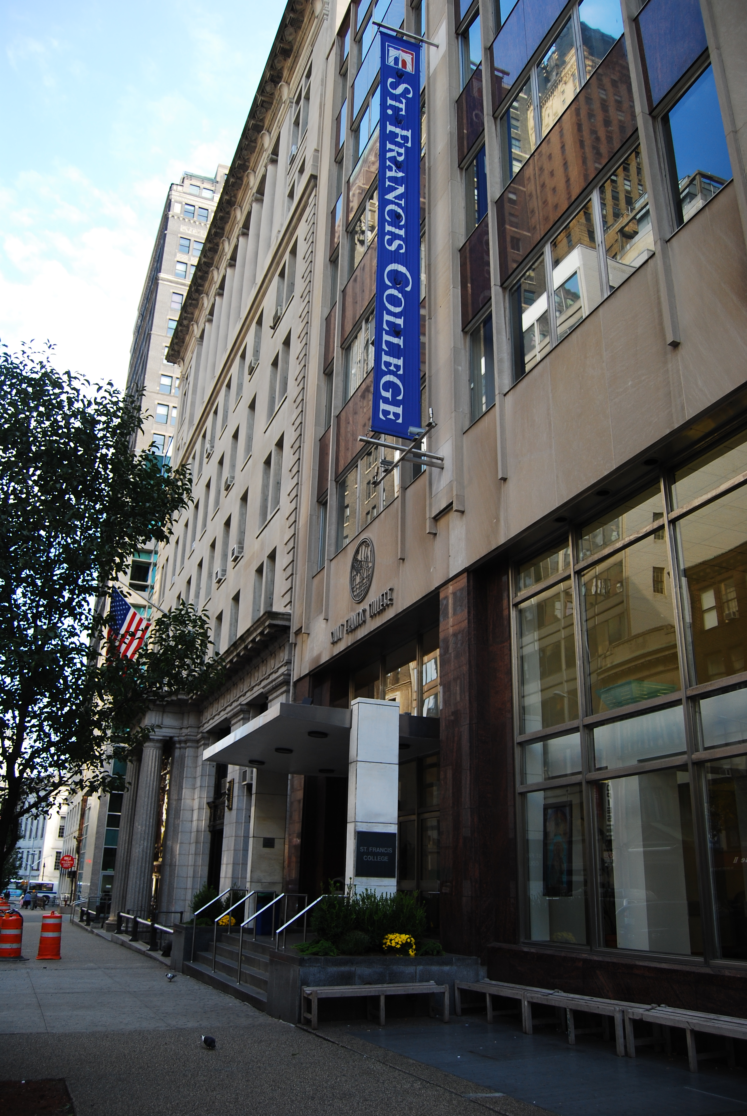 This photo is of Wikis Take Manhattan goal code J41, Saint Francis College.